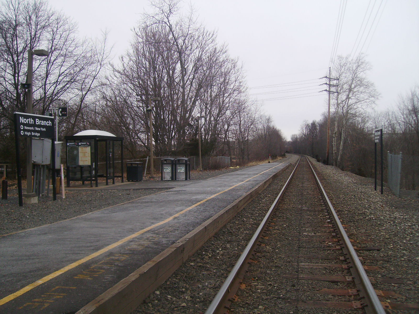 The North Branch New Jersey Transit station in North Branch, New Jersey.